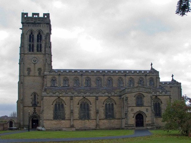 All Saints' parish church, Broseley, Shropshire, seen from south-southeast